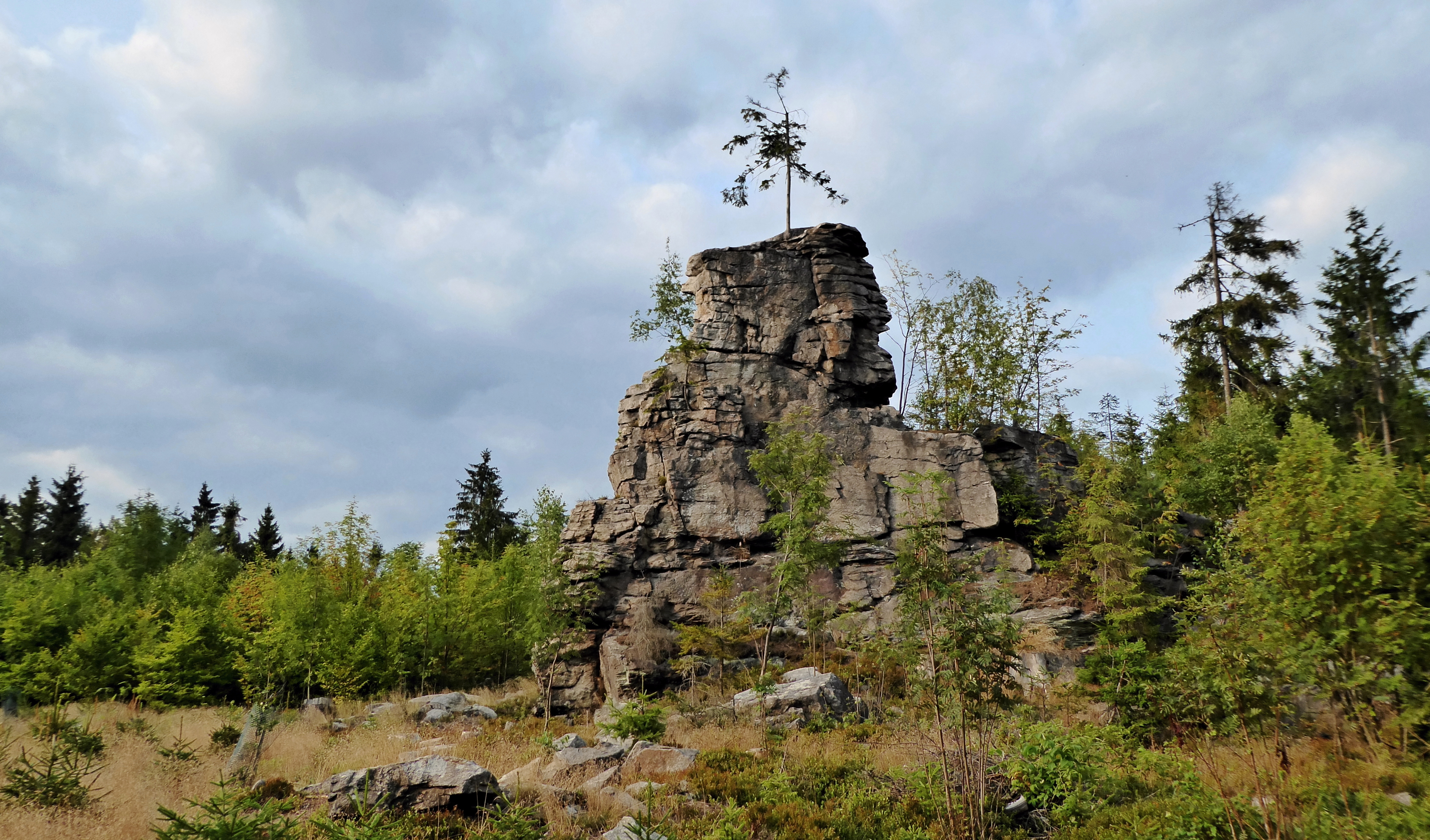 A rock tower on a wooded ridge above the village "Pohledec" (part of New Town in Moravia), part of the rock system with the top of the "Pohledecká" rock (812 meters above sea level). "Pohledecká" rock is the geographic name of the hill, from it derives the name of the geomorphological district "Pohledeckoskalská" Highlands. Locality lies in the Protected Landscape Area "Žďárské" Hills. The top part of the ridge with the rock system is publicly inaccessible (military area, part of the inaccessible PLA – restricted zone). Photo-location: Czechia, "Vysočina" Region, village "Pohledec" (part of town "Nové Město na Moravě), "Pohledeckoskalská" Highlands, border line of inaccessible zone.